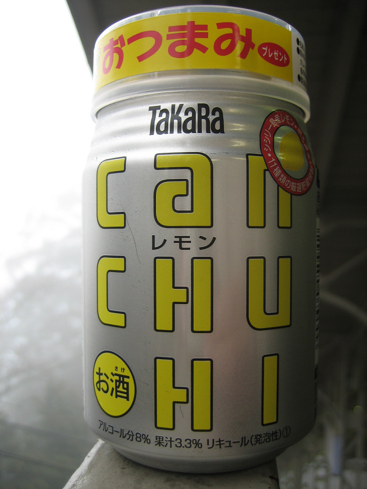 This is a can of Takara Lemon flavored Chu-hi taken with a Canon PowerShot SD450 Digital Elph camera. Image file extension was changed using a Paint Shop program on a laptop computer.